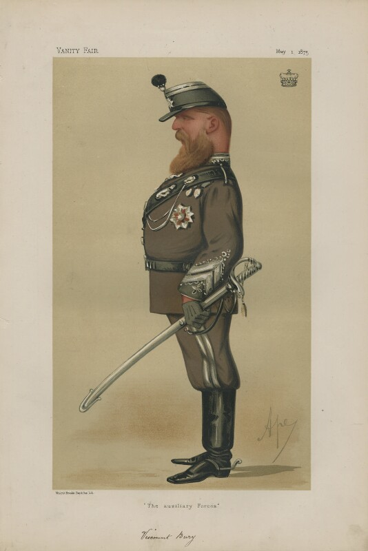 Caricature of Viscount Bury. Caption read "The auxiliary Forces".